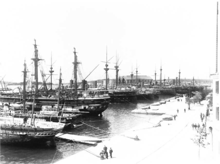 Ships of the Austro-Hungarian Navy in Pula Note: Identification needed